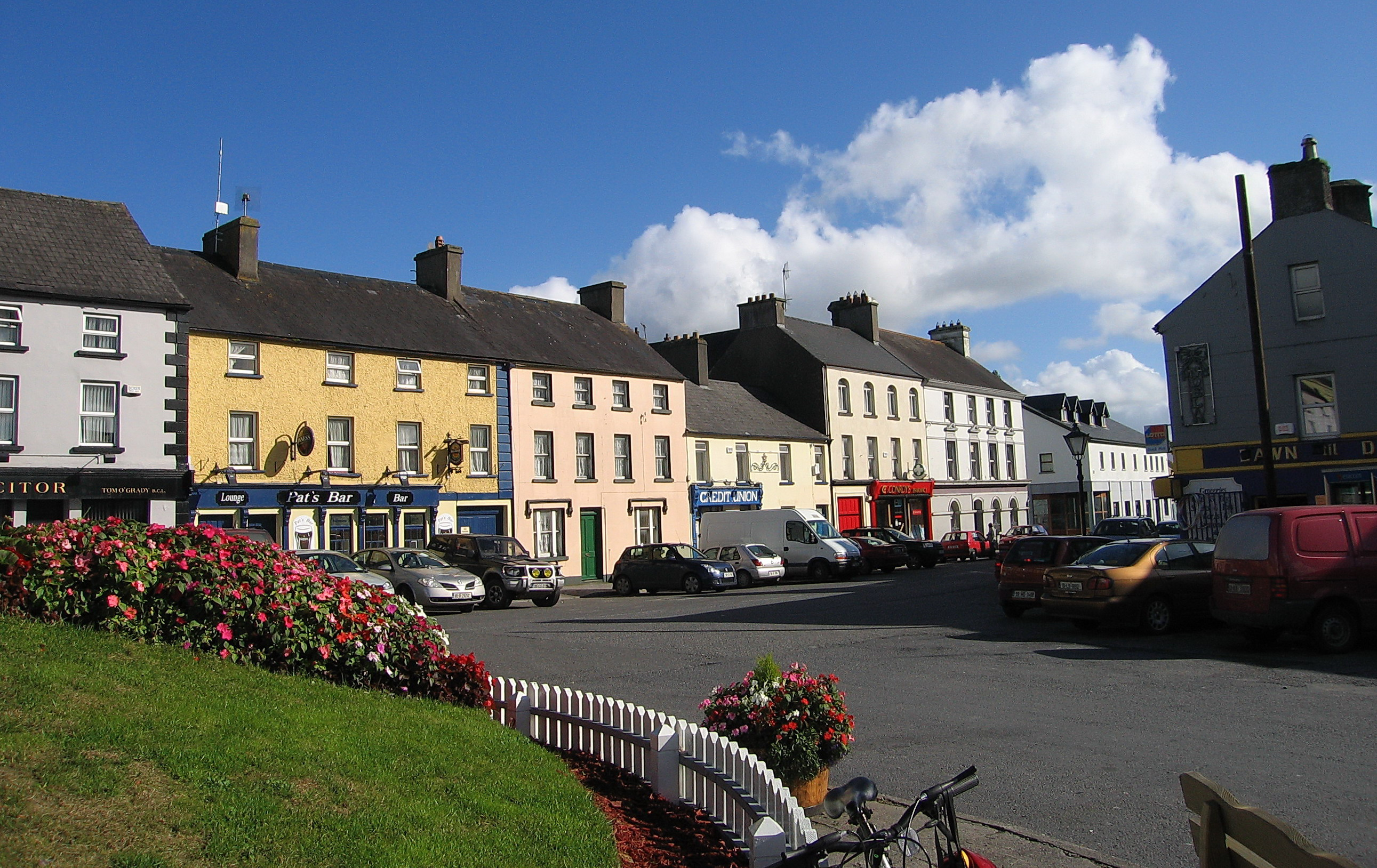 Mountrath